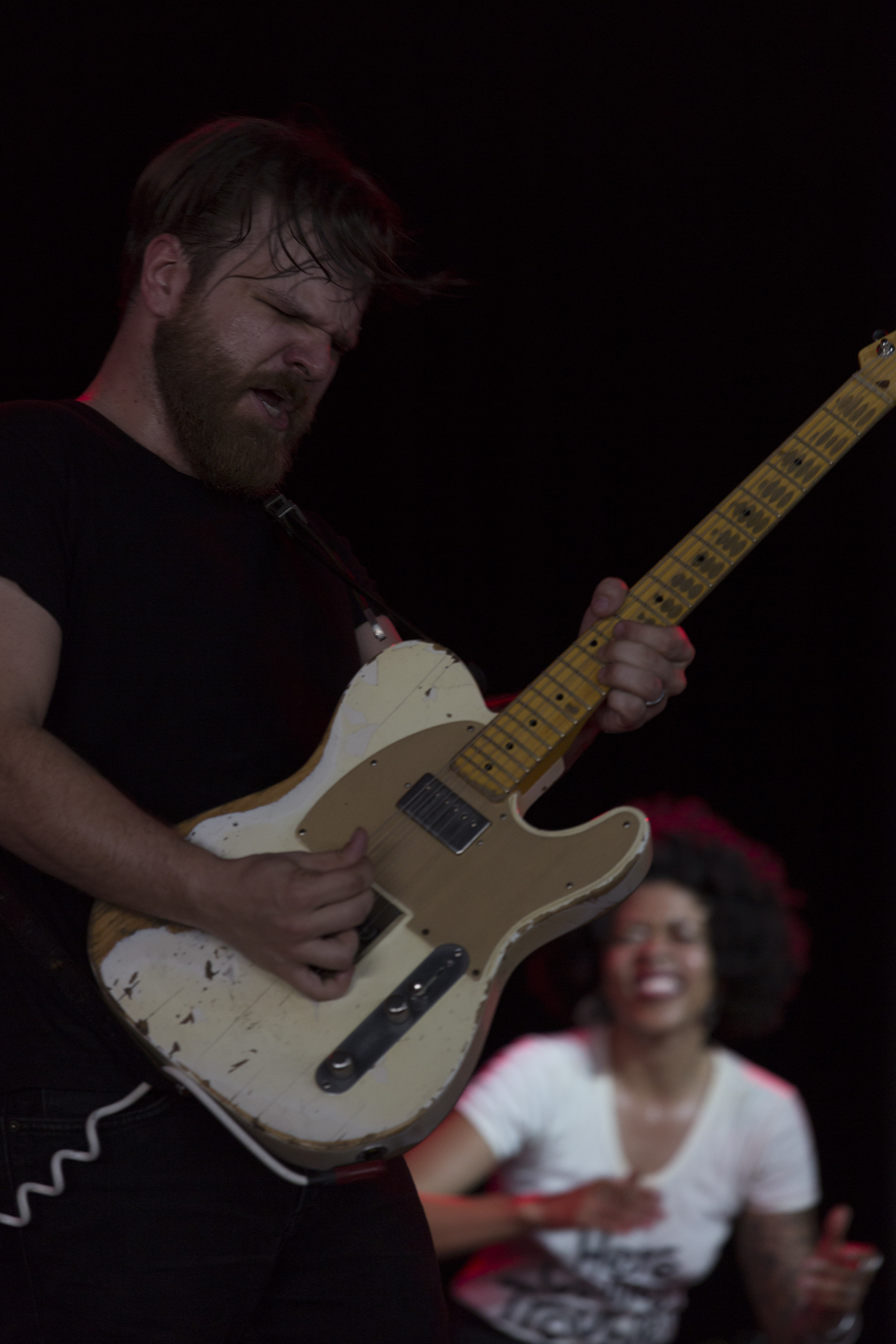 Matt Hill and Nikki Hill